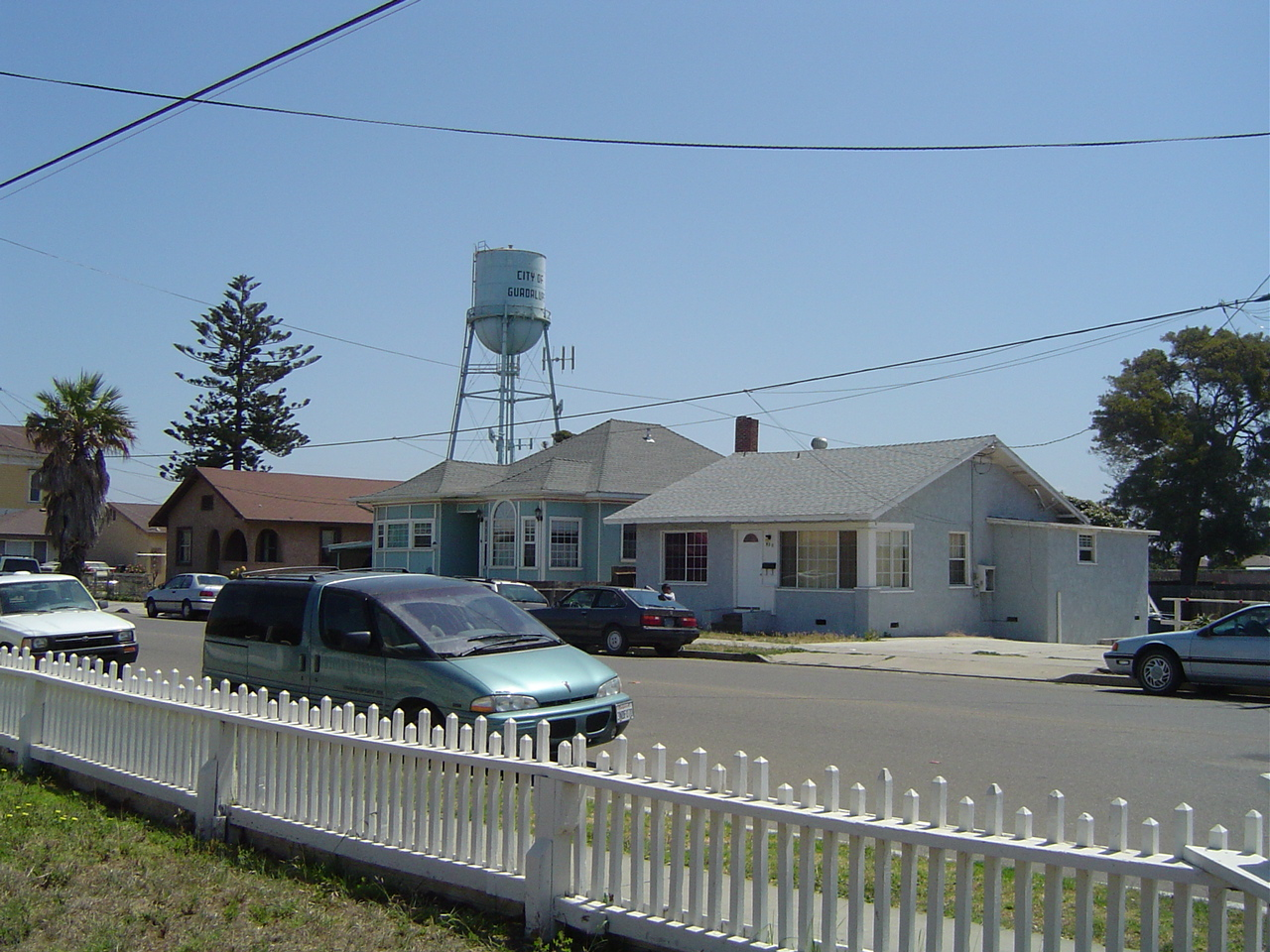 Typical Residential Area in Guadalupe, on July 31, 2005.